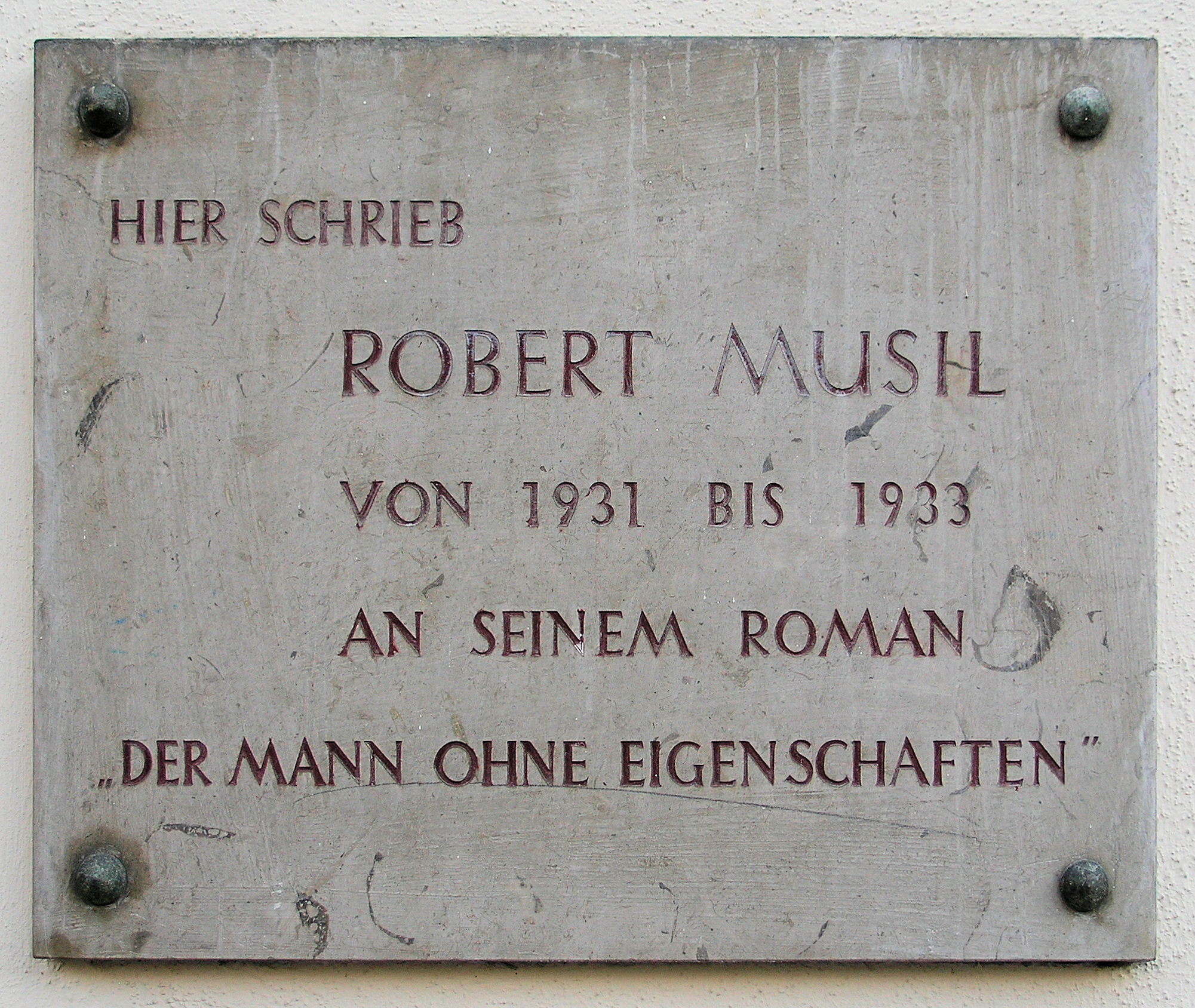 Memorial plaque, Robert Musil, Kurfürstendamm 217, Berlin-Charlottenburg, Germany